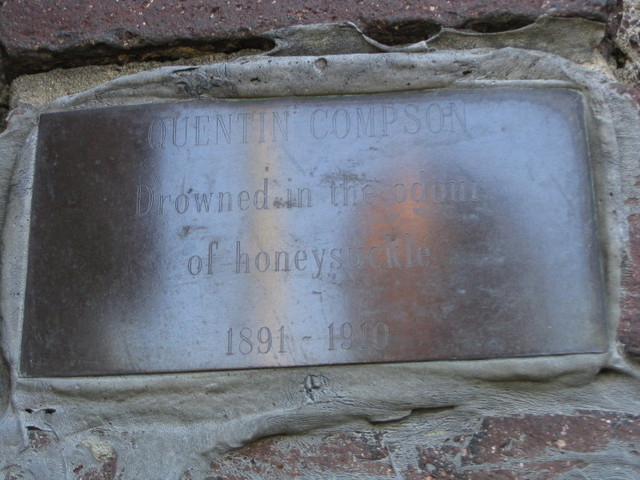 A plaque commemorating Quentin Compson. Anderson Memorial Bridge, Cambridge, Mass.